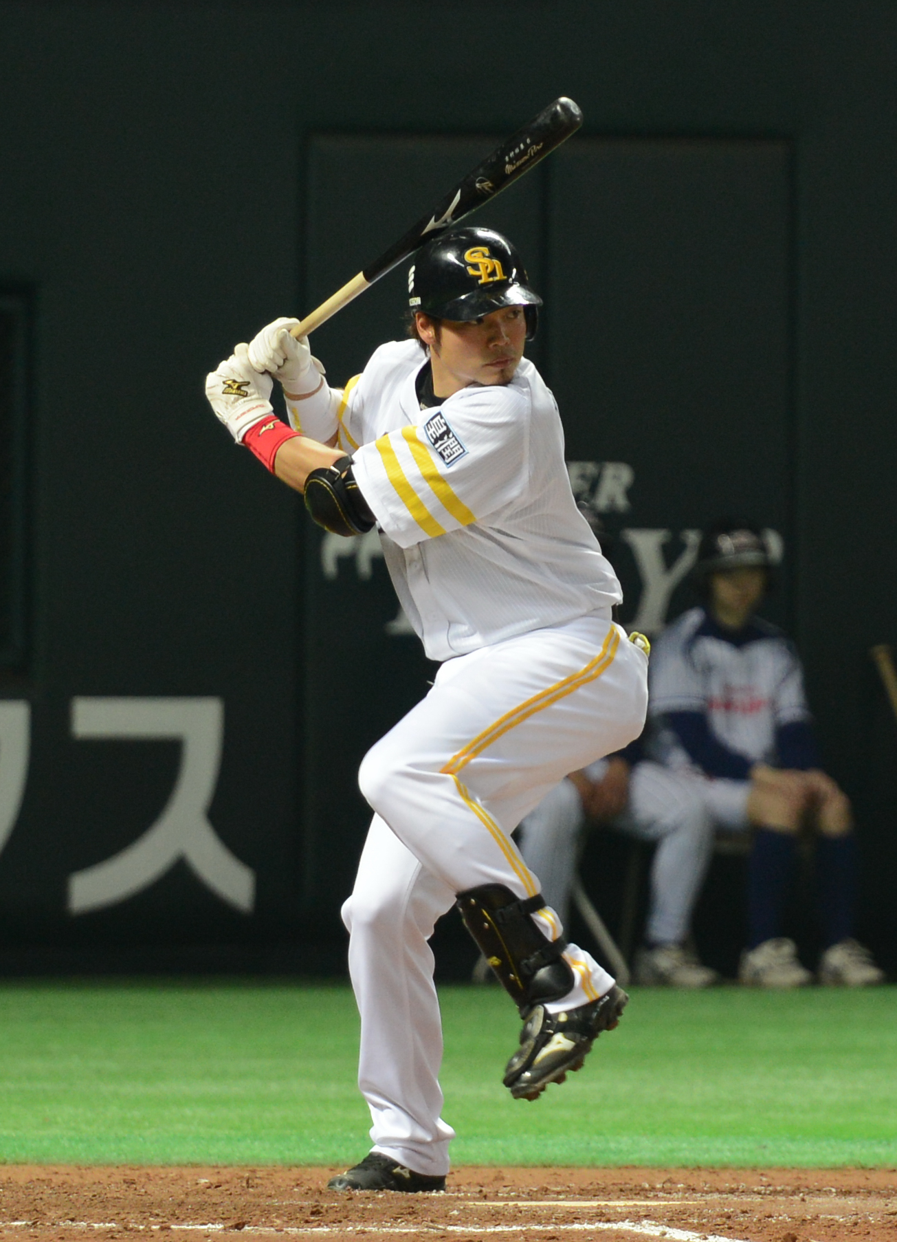 Yuki Yoshimura, outfielder of the Fukuoka SoftBank Hawks, at Fukuoka Dome.